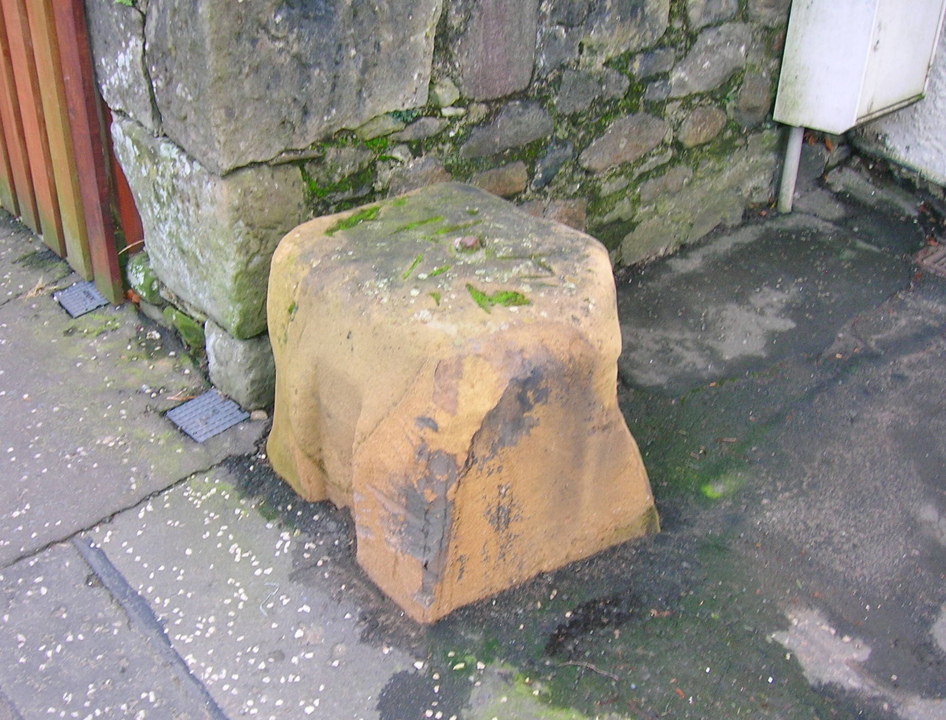 An old Cheese Press later used as a mounting block, Loans, South Ayrshire, Scotland.